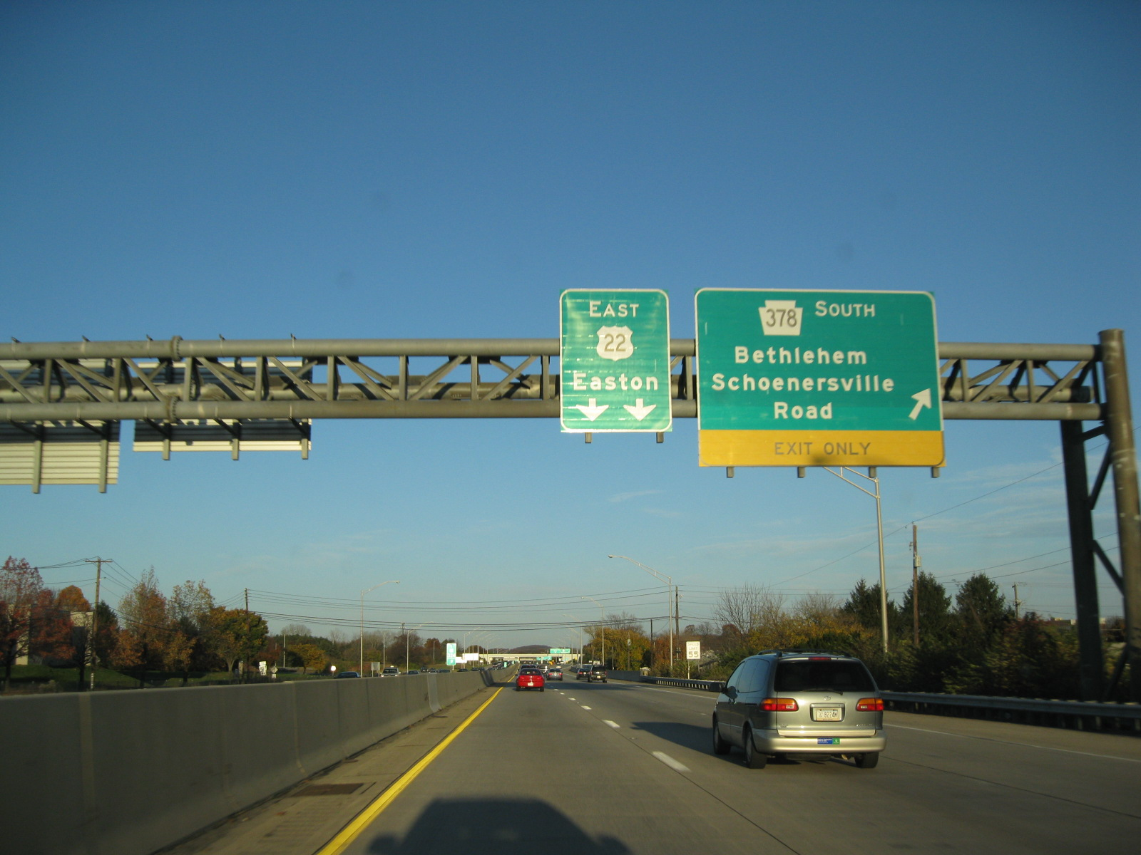 U.S. Route 22 in Pennsylvania eastbound at an interchange with Pennsylvania Route 378 in Bethlehem.